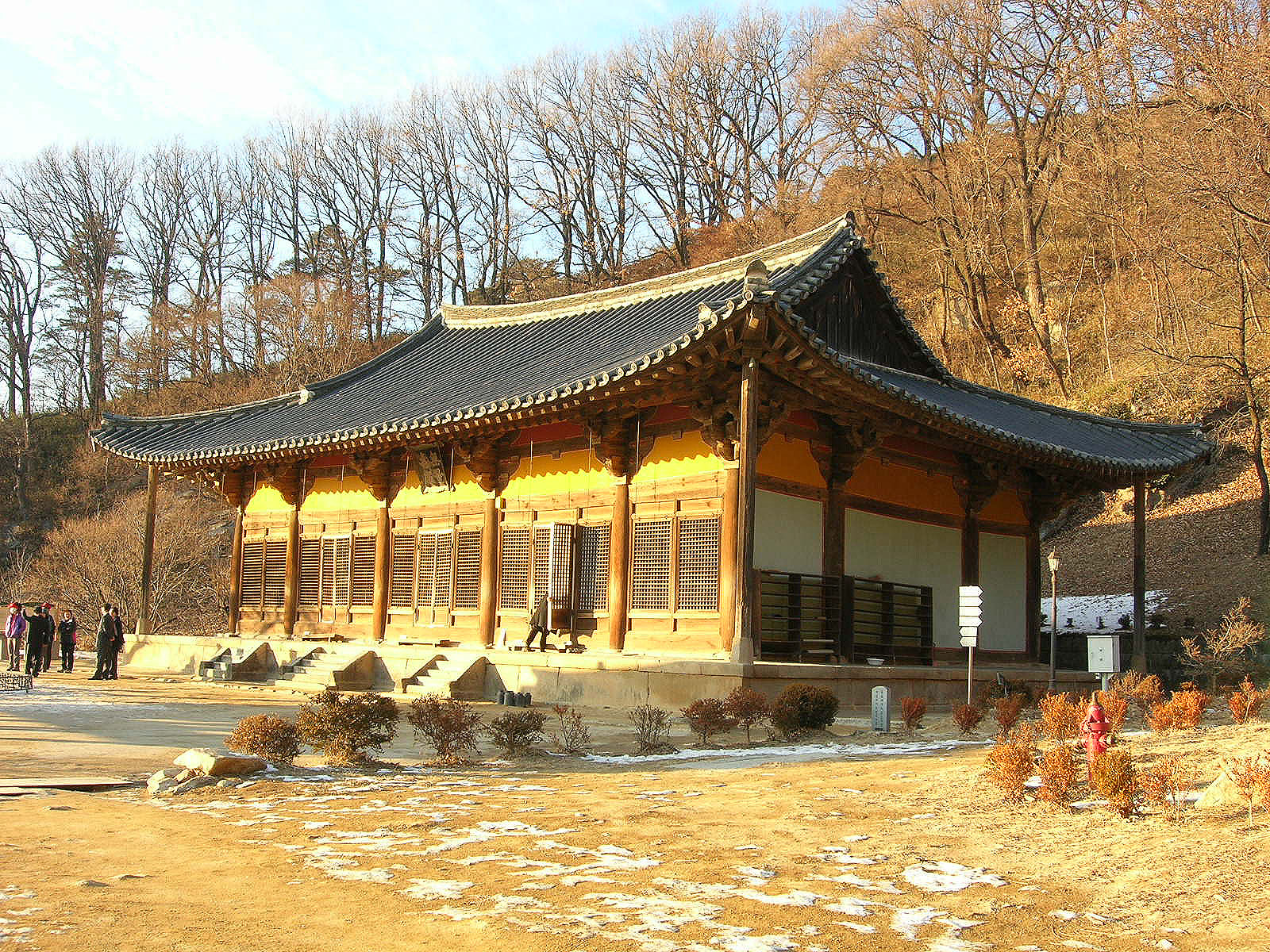 Muryangsujeon of Buseoksa. Buseoksa, Bukji-ri, Buseok-myeon, Yeongju, Gyeongsangbuk-do, South Korea.